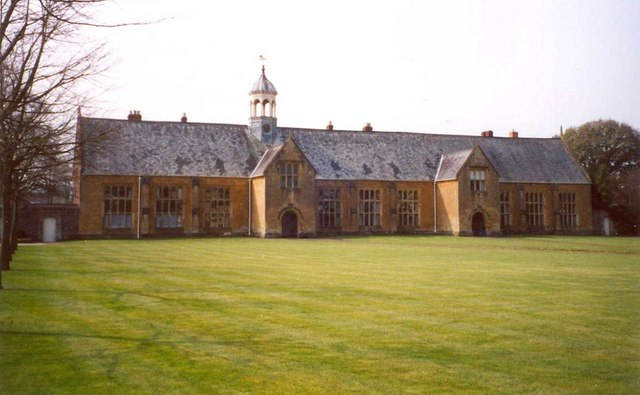 Old Blundell's School in Tiverton, Devon, England. OSGB36: SS957124 WGS84: 50:54.0974N 3:29.0775W. The school moved to new premises in 1882, and this building was converted to houses. Given to the National Trust in 1954.